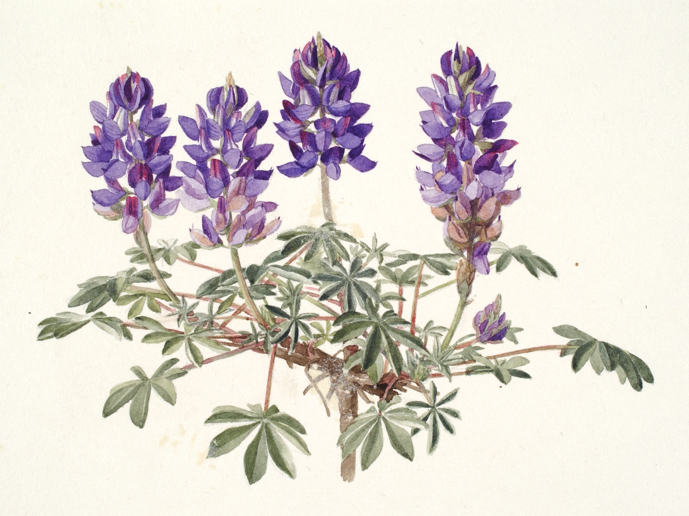 Lupinus minimus, watercolor on paper (1902)This image is in the public domain and can be downloaded from the database. When using these images, please include the following credit statement: Courtesy of the Hunt Institute for Botanical Documentation, Carnegie Mellon University, Pittsburgh, Pa., on indefinite loan from the Smithsonian Institution.